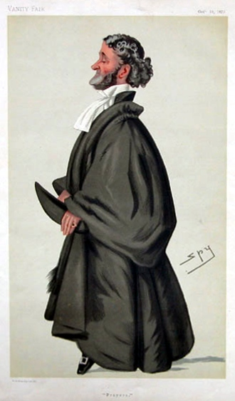 Caricature of Francis Edmund Cecil Byng. Caption read "Prayers".